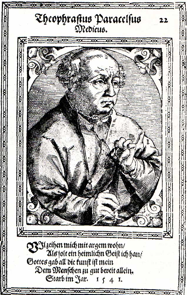 Paracelsus, woodcut by Tobias Stimmer (1539–1584)